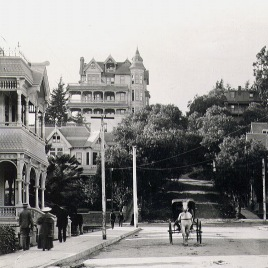 rsoewebmaster